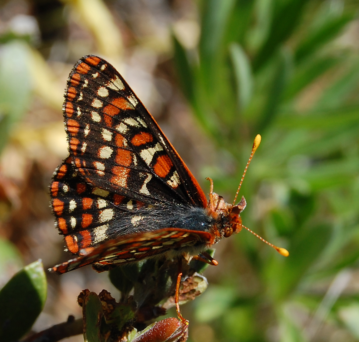 A Bay Checkerspot butterfly (Euphydryas editha bayensis).